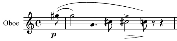 Second theme of Faust from Faust Symphony (Franz Liszt)